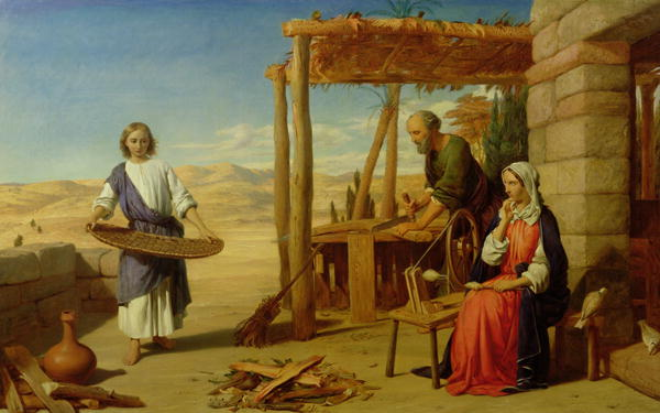 photo of a painting by John Rogers Herbert